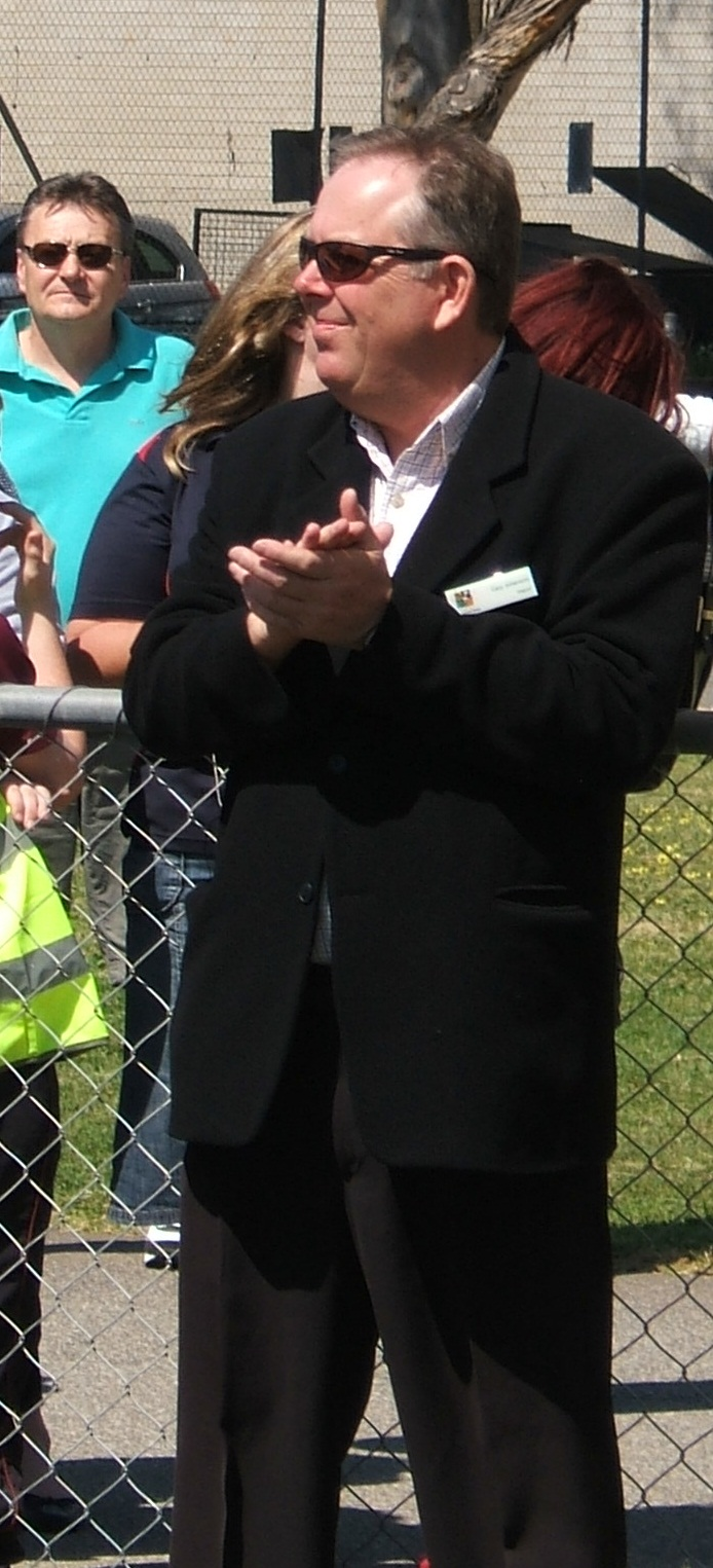 Gary Johansen, mayor of the City of Port Adelaide Enfield.